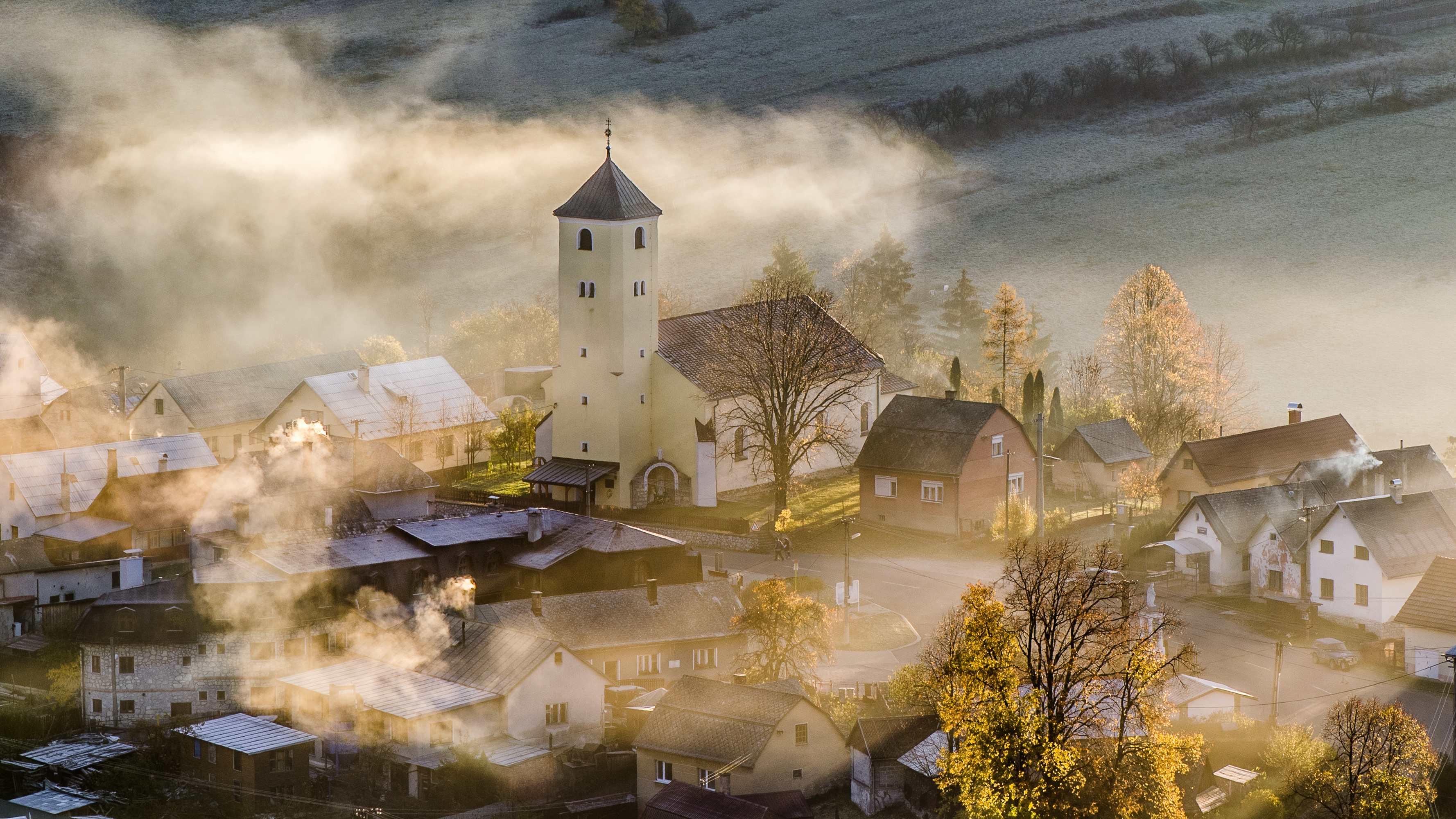 Roman Catholic parish church. Lawrence in Zliechov, Ilava district, Slovakia. The Gothic church is from the second half of the 14th century.